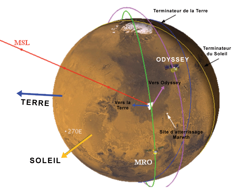 Mars Science Laboratory EDL Coverage Geometry Targeted to Mawrth for Day 1 (22-Oct-2011) of Type 2 Launch Period